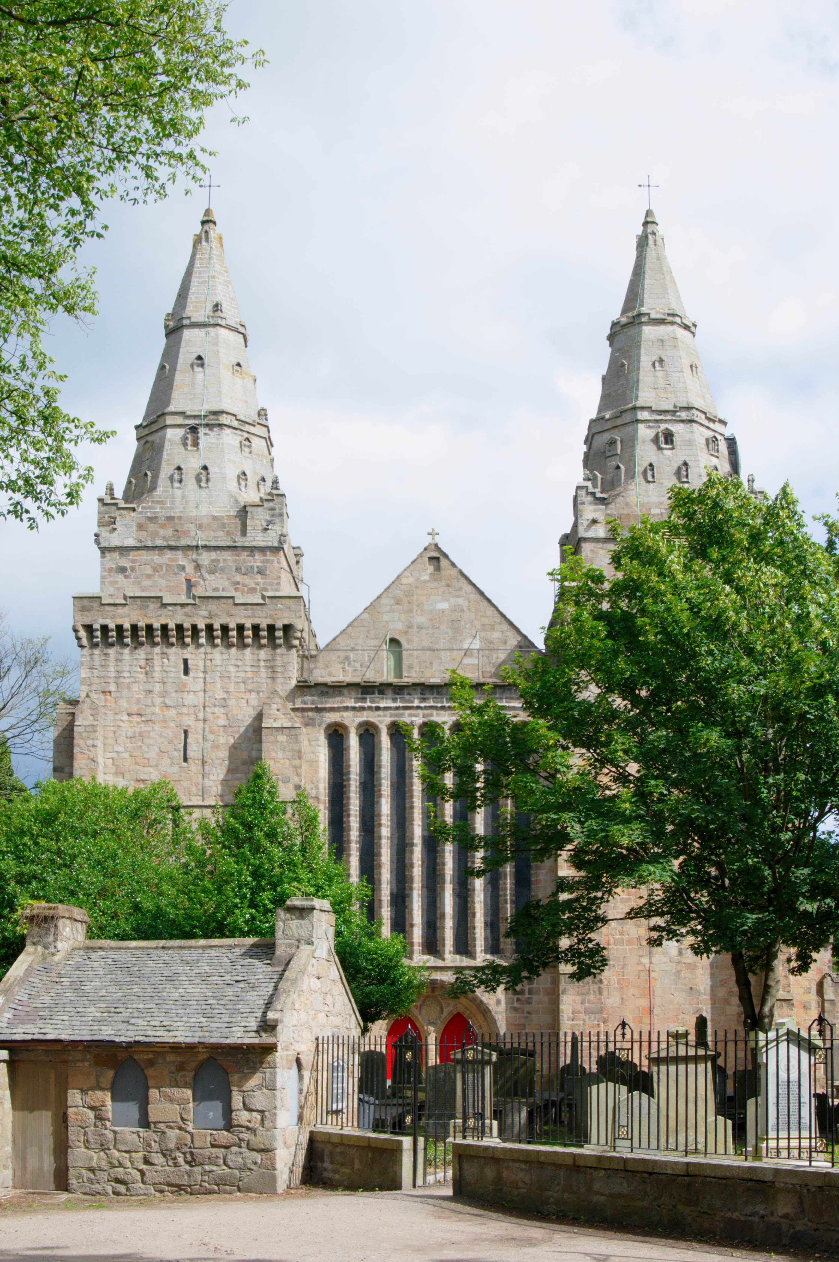 St. Machar's Cathedral, Old Aberdeen